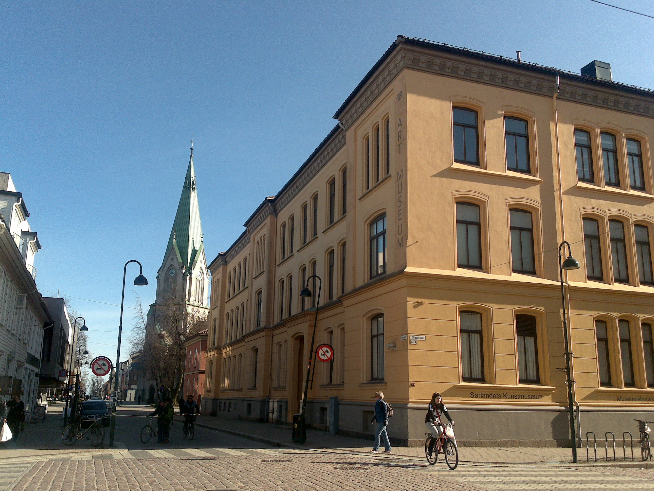 Sørlandets kunstmuseum, Kristiansand, in the premises of the old Latin school (Skippergata 24b). The biscopal catheedral can be seen in the background.